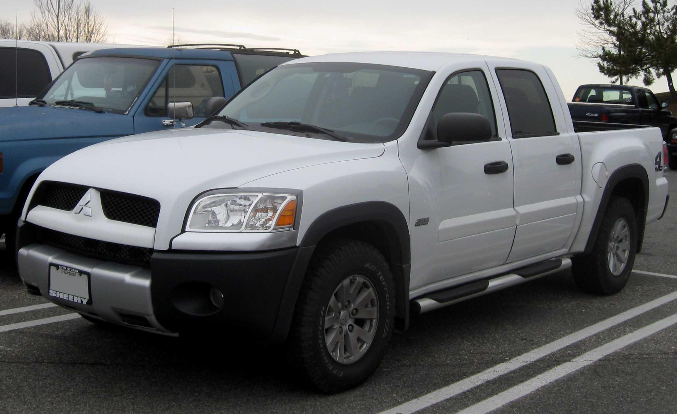 2006-2009 Mitsubishi Raider photographed in Waldorf, Maryland, USA.